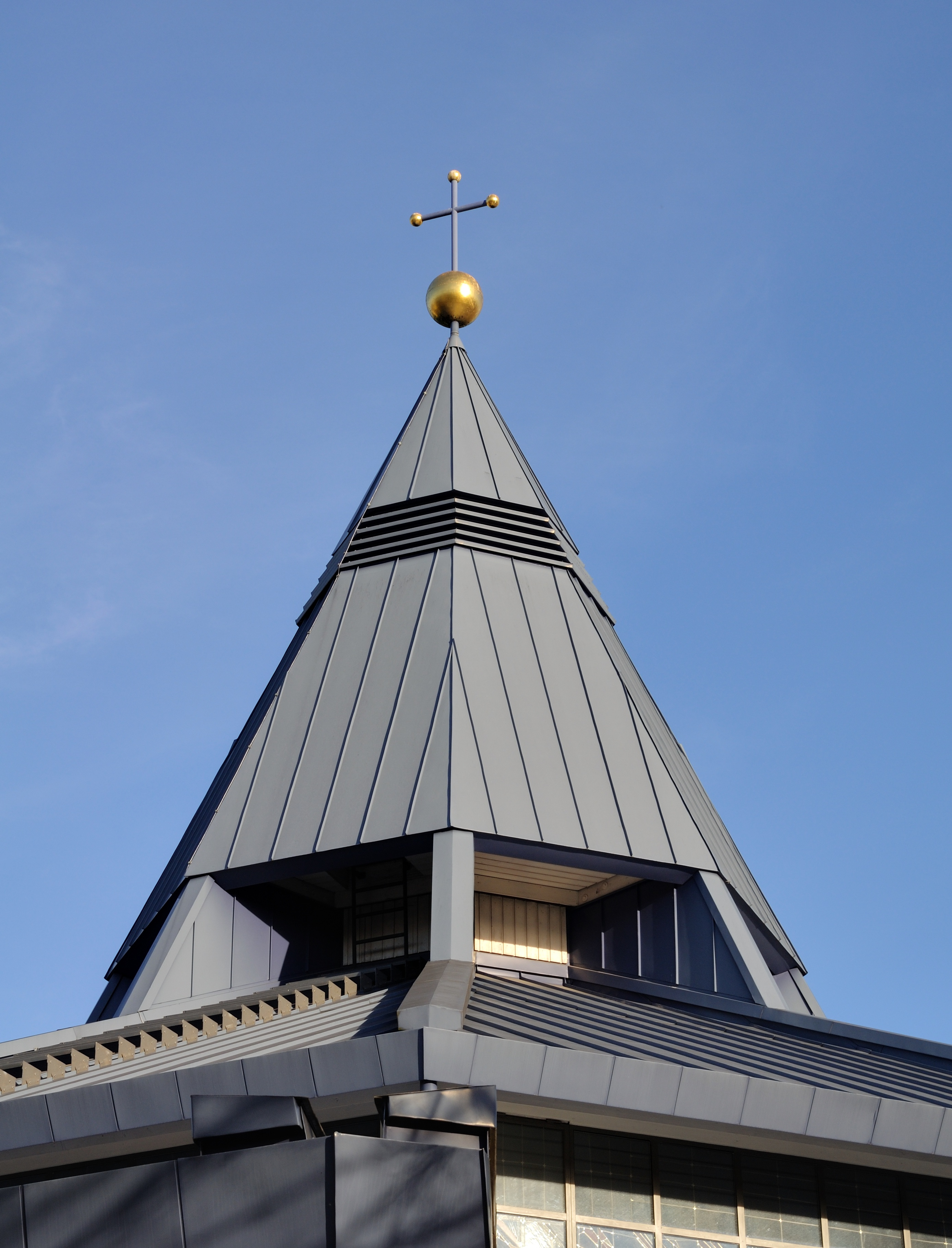 Weil am Rhein: Peter and Paul Church, bell tower